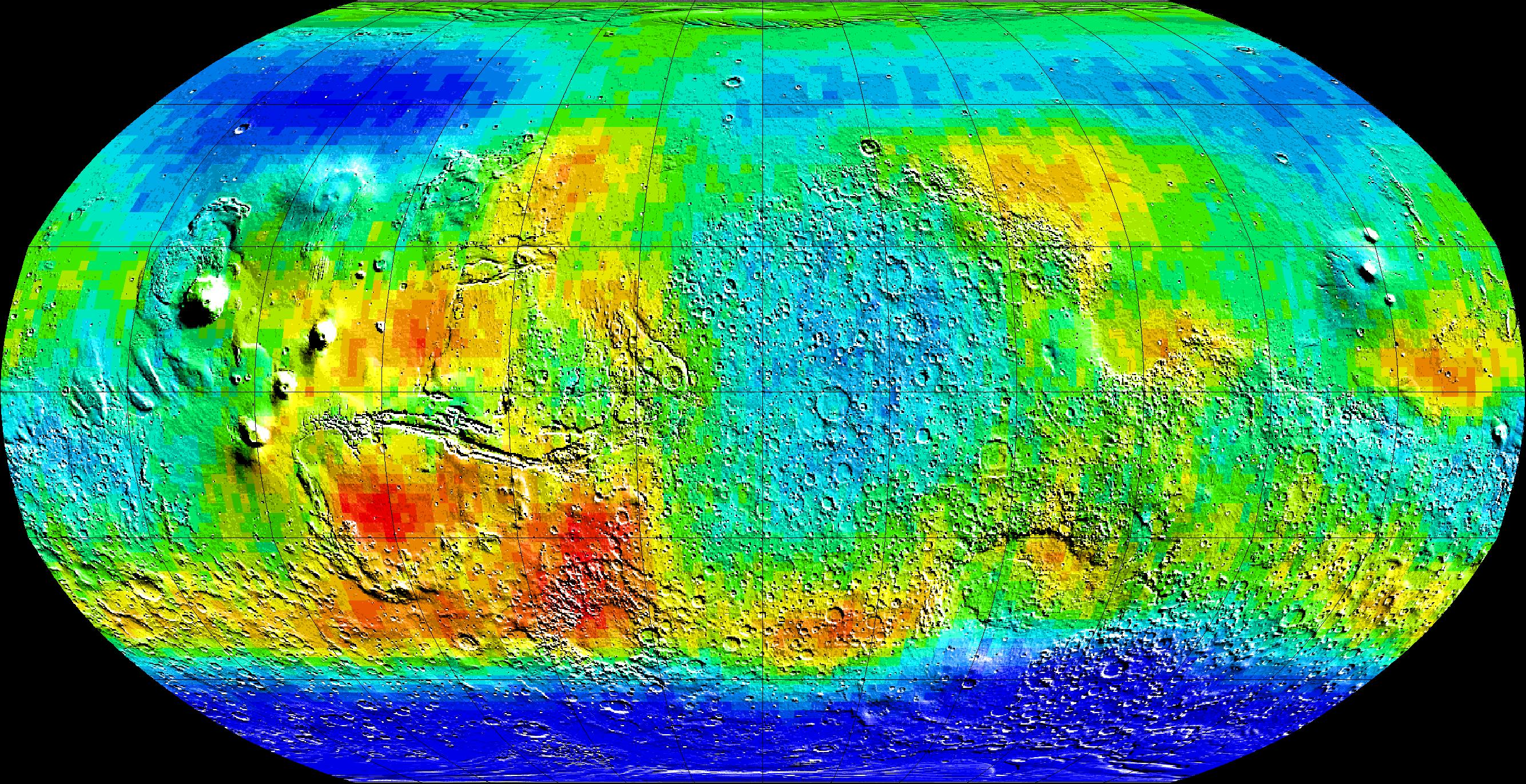 Observations by NASA's 2001 Mars Odyssey spacecraft show a global view of Mars in intermediate-energy, or epithermal, neutrons. Soil enriched by hydrogen is indicated by the deep blue colors on the map, which show a low intensity of epithermal neutrons. Progressively smaller amounts of hydrogen are shown in the colors light blue, green, yellow and red. The deep blue areas in the polar regions are believed to contain up to 50 percent water ice in the upper one meter (three feet) of the soil. Hydrogen in the far north is hidden at this time beneath a layer of carbon dioxide frost (dry ice). Light blue regions near the equator contain slightly enhanced near-surface hydrogen, which is most likely chemically or physically bound because water ice is not stable near the equator. The view shown here is a map of measurements made during the first three months of mapping using the neutron spectrometer instrument, part of the gamma ray spectrometer instrument suite. The central meridian in this projection is zero degrees longitude. Topographic features are superimposed on the map for geographic reference. NASA's Jet Propulsion Laboratory manages the 2001 Mars Odyssey mission for NASA's Office of Space Science, Washington, D.C. Investigators at Arizona State University in Tempe, the University of Arizona in Tucson, and NASA's Johnson Space Center, Houston, operate the science instruments. The gamma-ray spectrometer was provided by the University of Arizona in collaboration with the Russian Aviation and Space Agency, which provided the high-energy neutron detector, and the Los Alamos National Laboratories, New Mexico, which provided the neutron spectrometer. Lockheed Martin Astronautics, Denver, is the prime contractor for the project, and developed and built the orbiter. Mission operations are conducted jointly from Lockheed Martin and from JPL, a division of the California Institute of Technology in Pasadena.